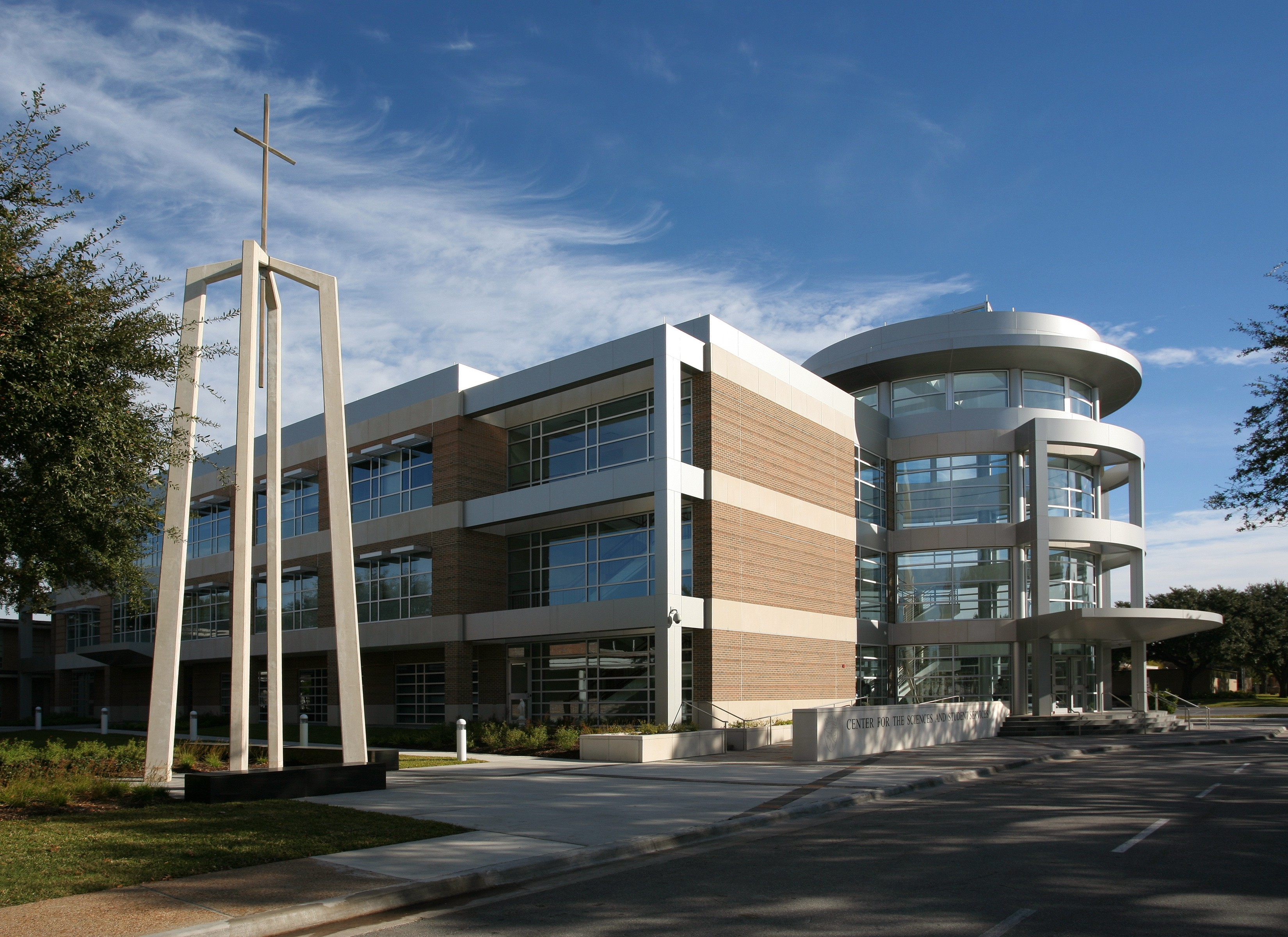 New Science building at St. Agnes Academy, Houston, TX.